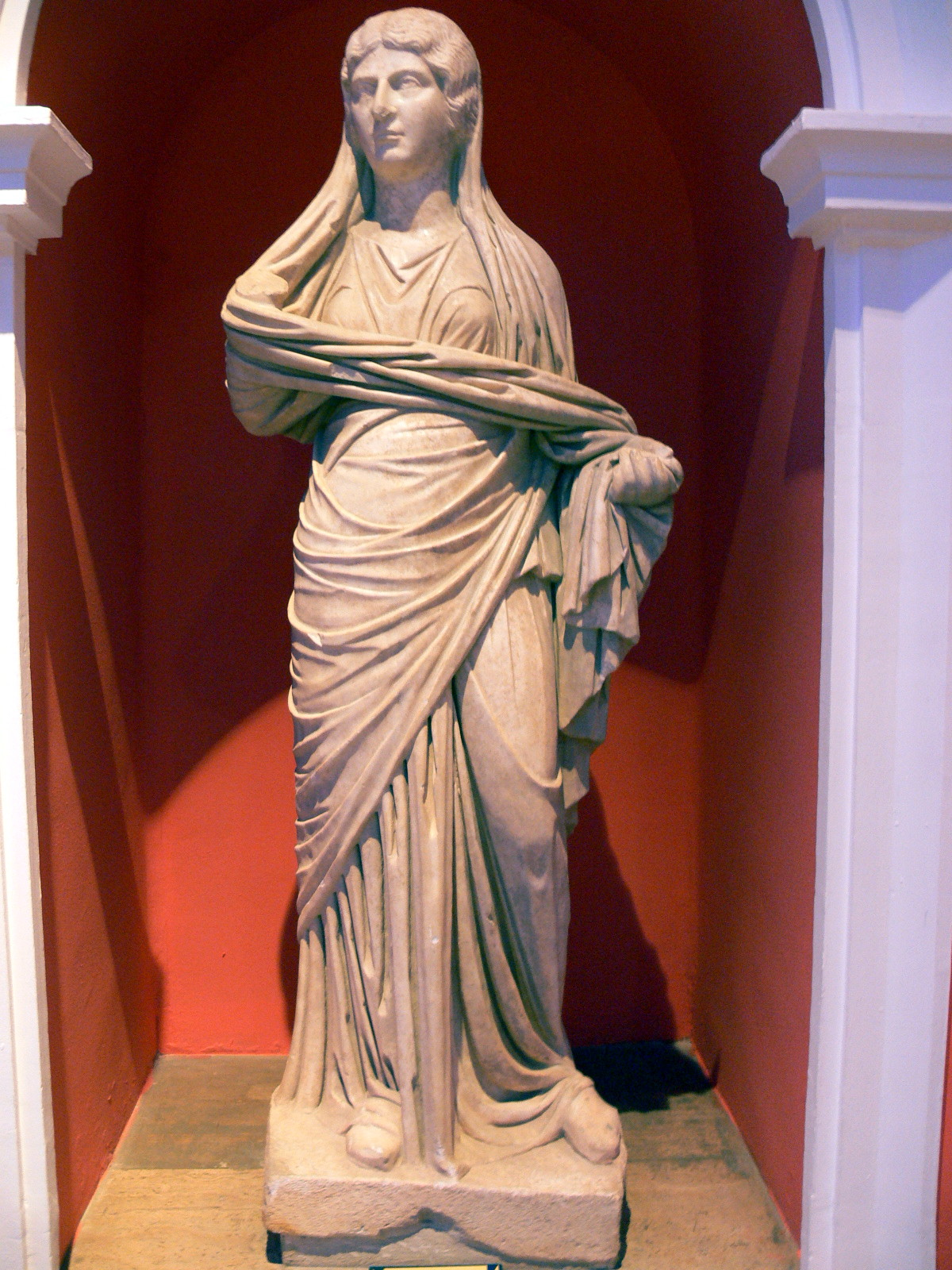 Antalya Archeological Museum.Perge collections: Statue of Iulia Soaemias ( 3rd century AD )